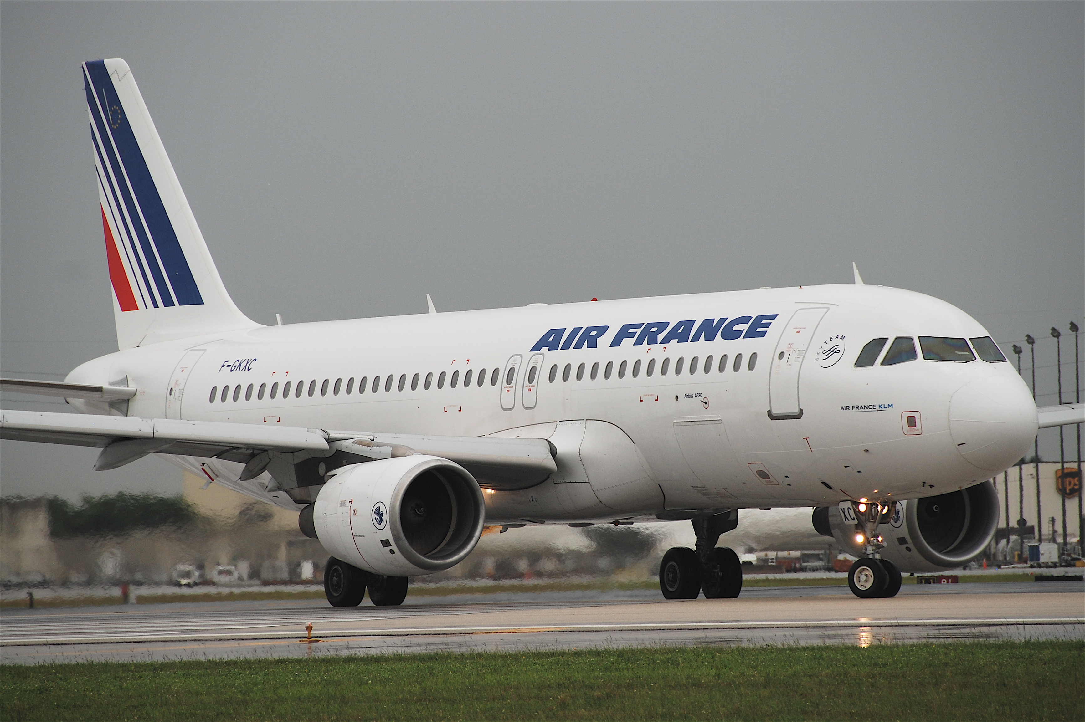 Air France Airbus A320-214; F-GKXC@MIA;17.10.2011/626bf